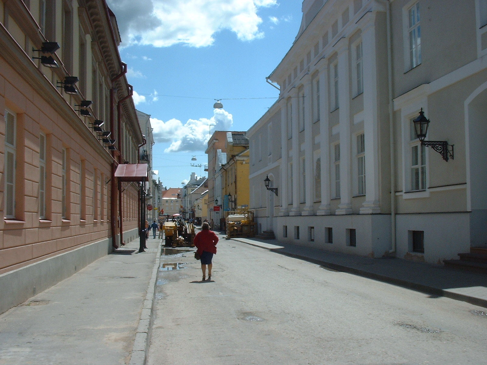 Rüütli street in Tartu, Estonia. Hugo Treffner Gymnasium on the right, Estonian Sports Museum (Estonian Sports Museum) on the left side.